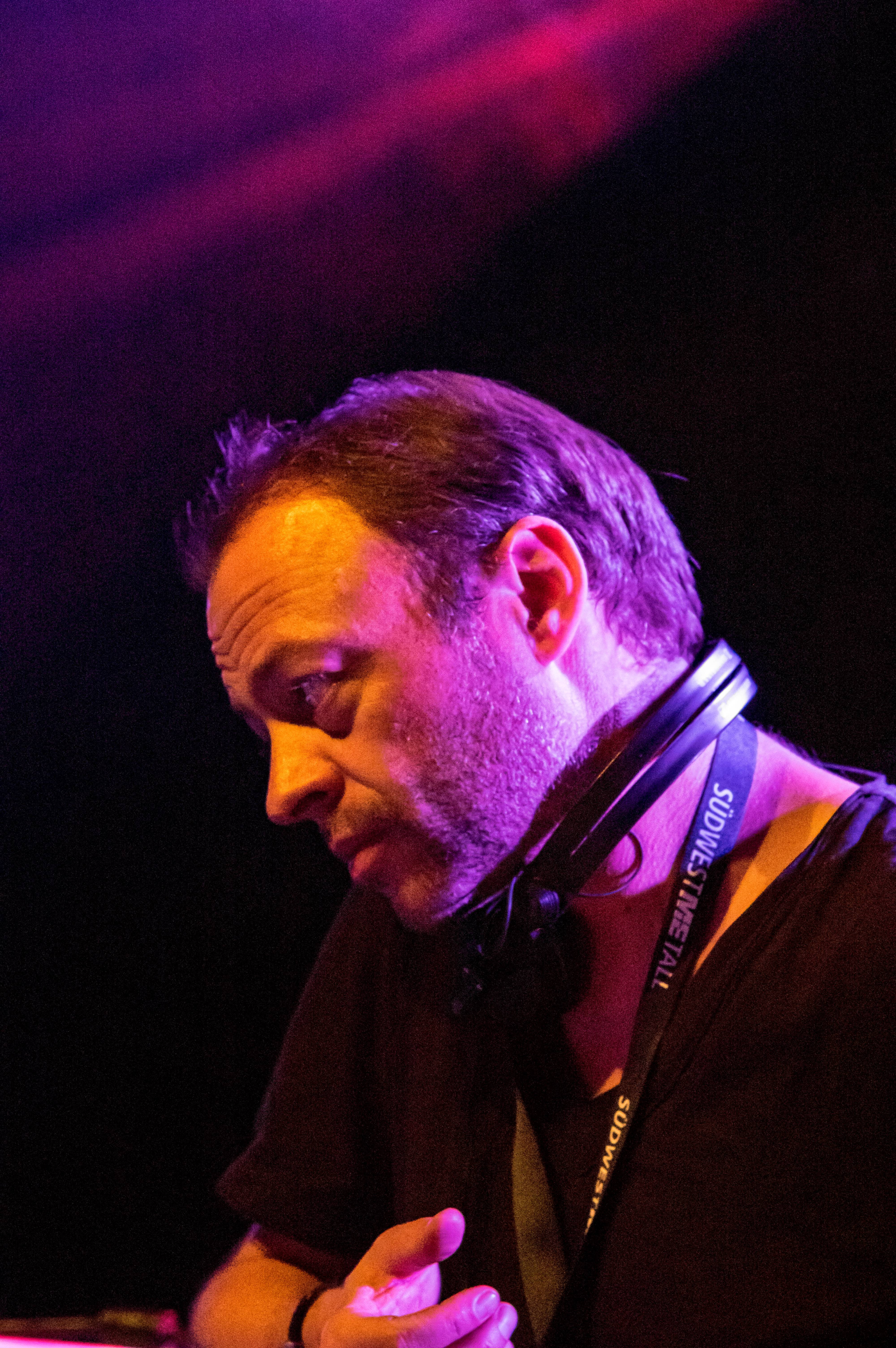 Bilder vom ZMF 2015 Root Down Special, Rainer Trüby 10. Juli 2015